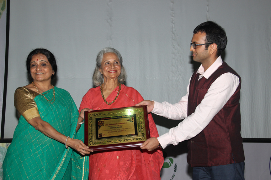 Bhawana Somaaya receives her memento from Waheeda Rehman and Abhinandan Shukla